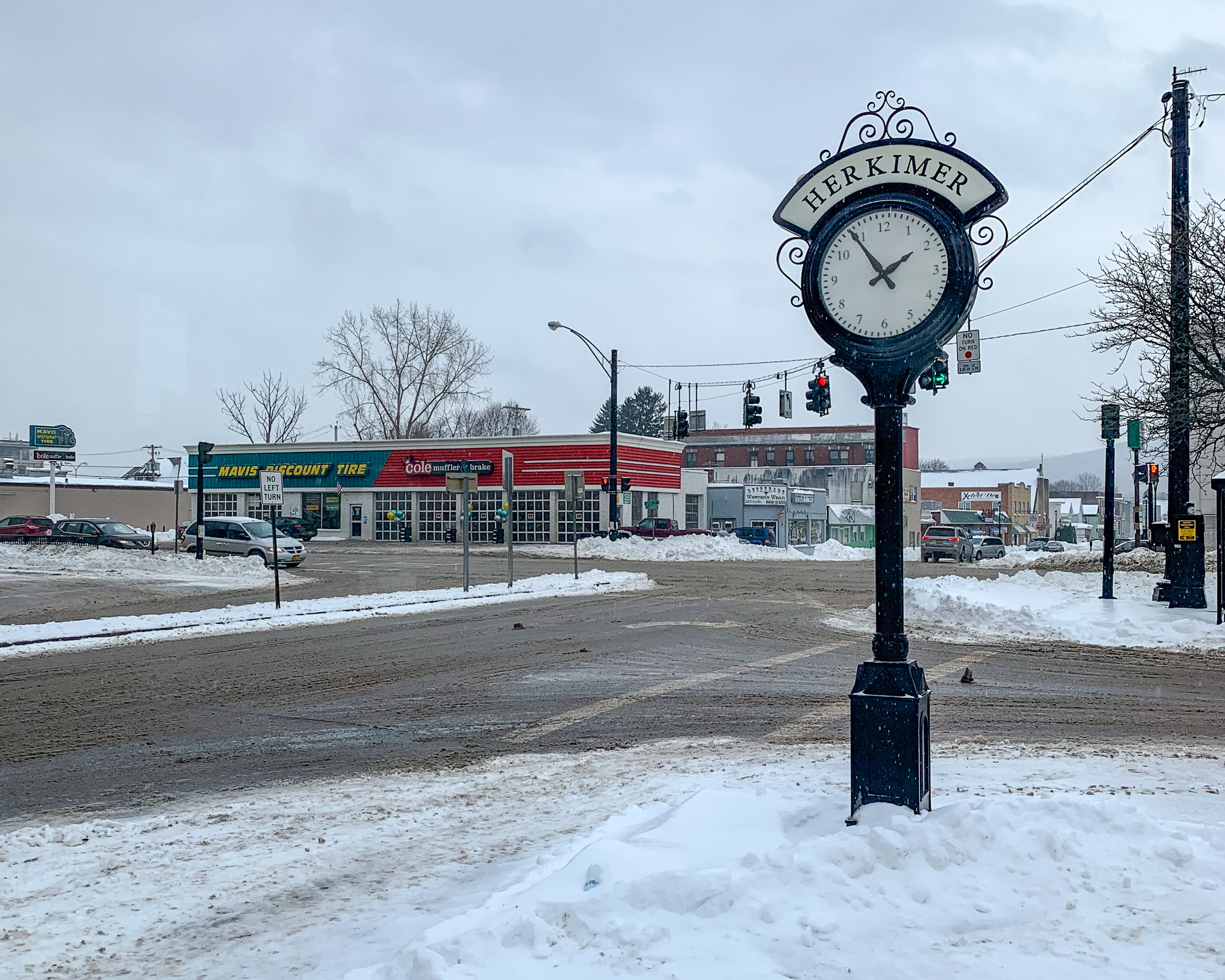 A street clock stands at the corner of Main St and Albany St on a snowy day. Beautiful downtown Herkimer, NY